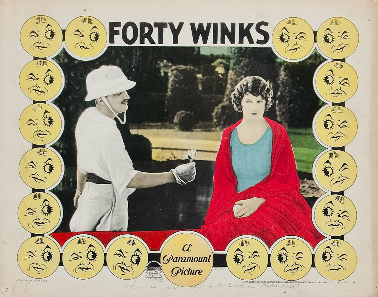 Lobby card for the film Forty Winks (1925). Clearly this was published with no copyright notice.